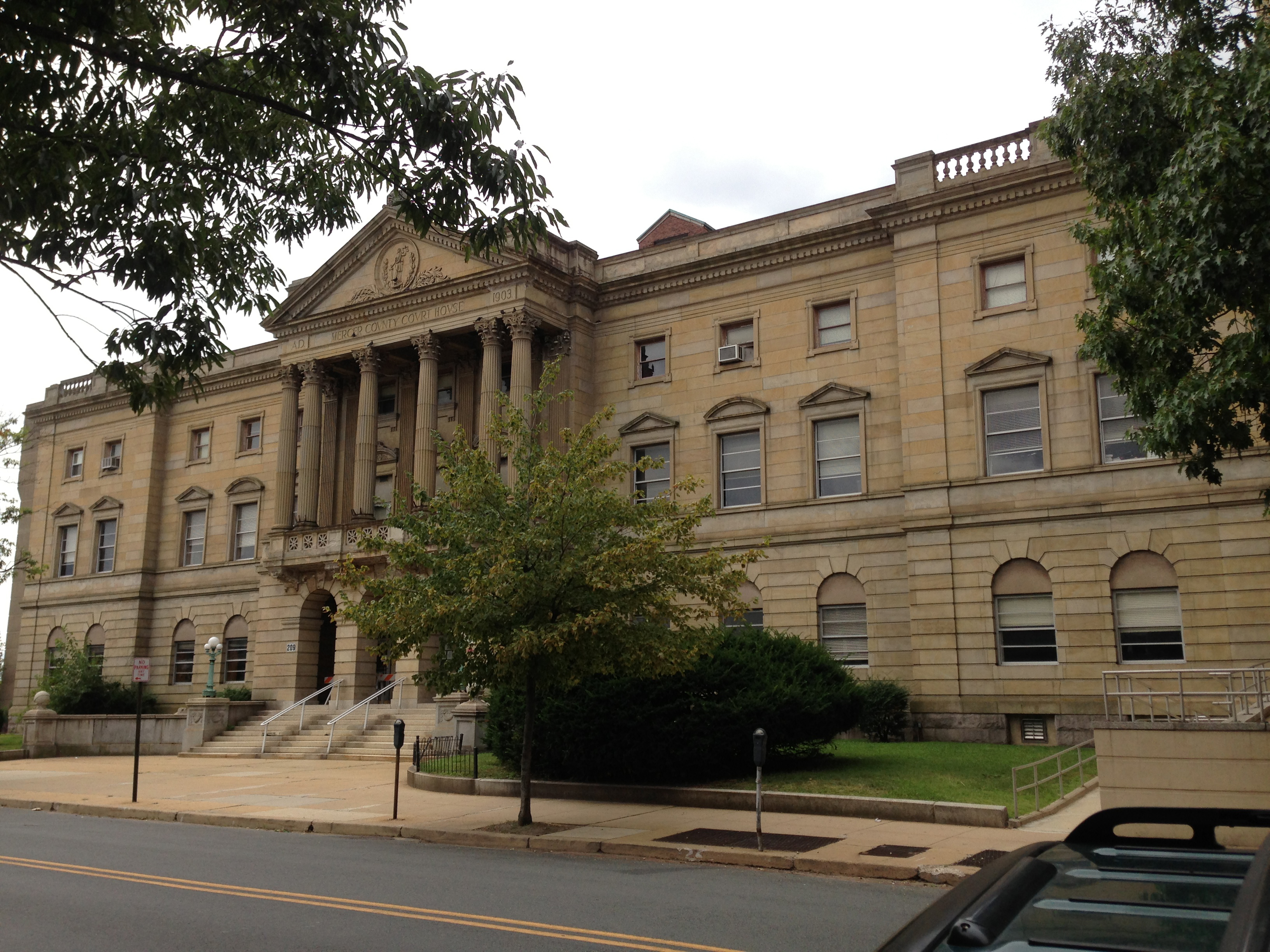 View of Mercer County Court House in Trenton, New Jersey from the north